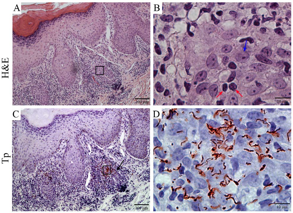 Spirochetal clusters are present in secondary syphilis skin lesions. Representative skin biopsy from a posterior neck secondary syphilis (SS) lesion was processed for IHC. (A/B) H&E stain of SS lesions. (C/D) IHC staining reveals abundant spirochetes embedded within a mixed cellular inflammatory infiltrate (shown in the red box) in the papillary dermis. The blue arrow points to a tissue histiocyte and the read arrows to two dermal lymphocytes.